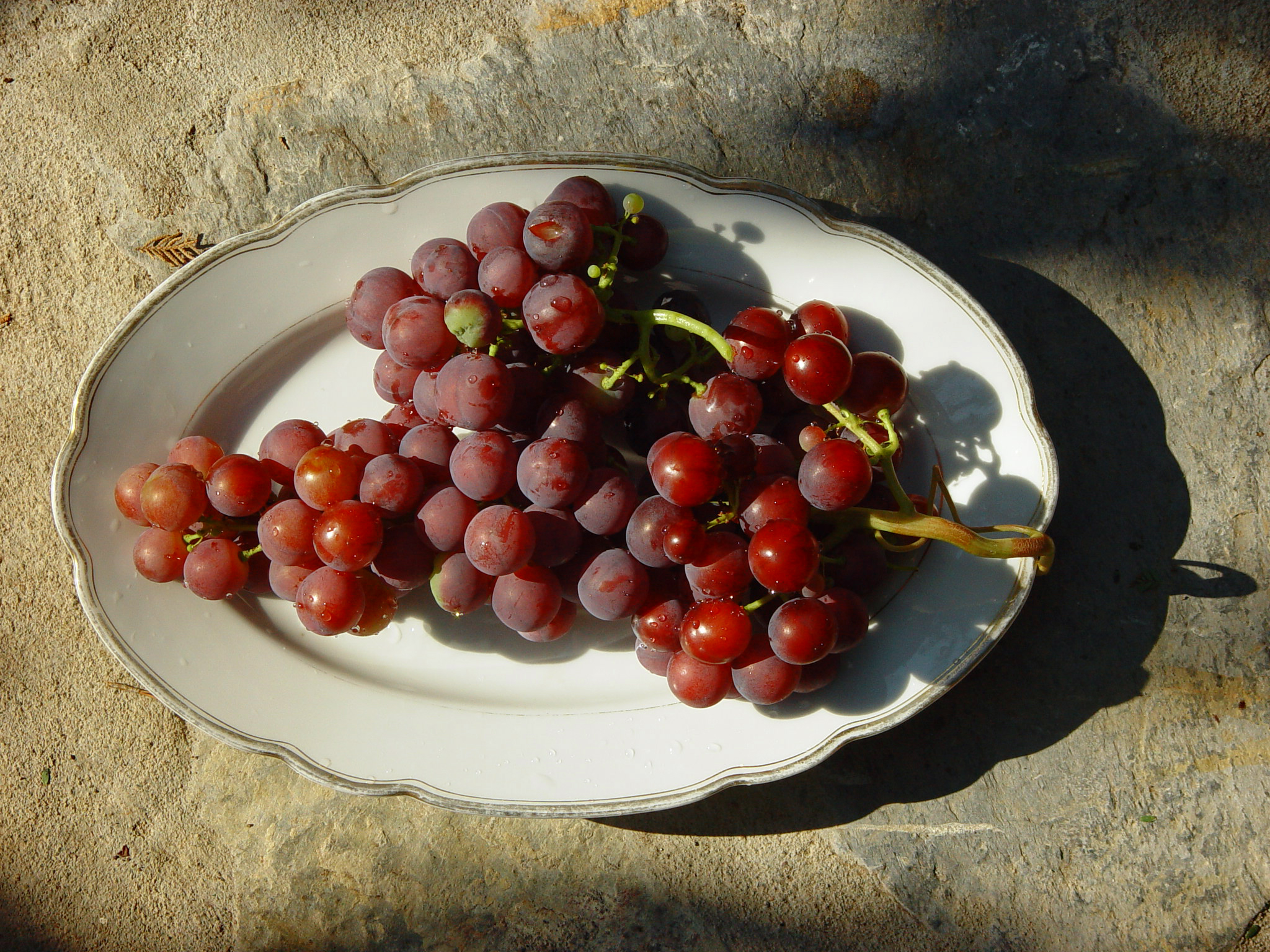 Red Grape